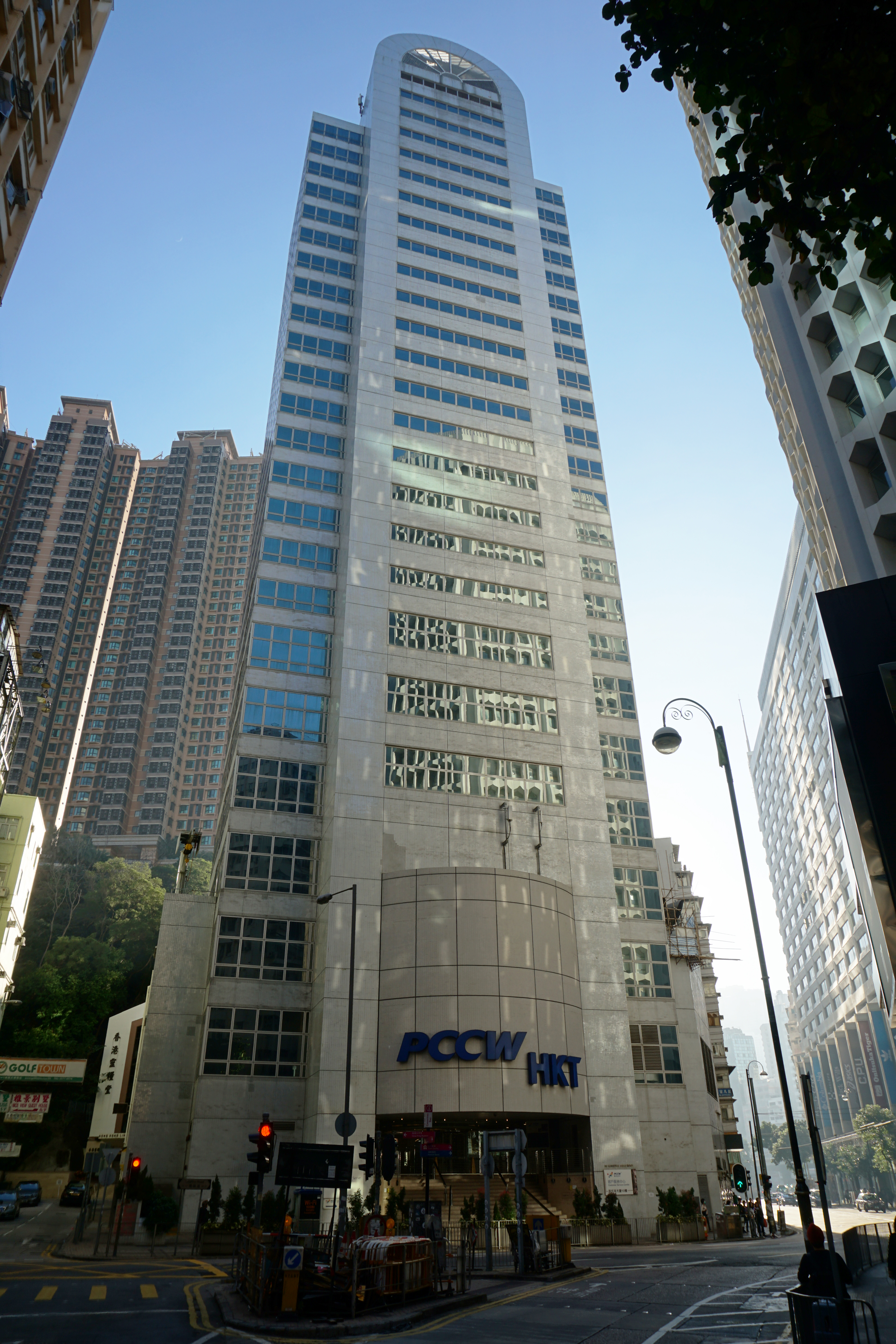 East Exchange Tower in Causeway Bay, Hong Kong.